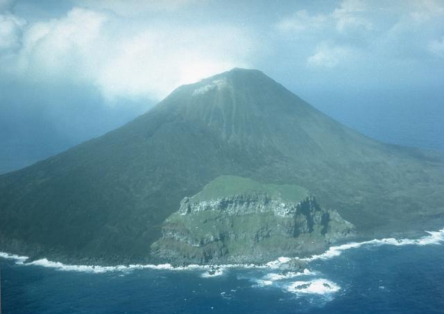 The island Farallon de Pajaros (Urracas) - the northernmost island of Mariana Islands.